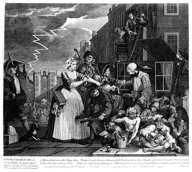 William Hogarth: A Rake's Progress, Plate 4: Arrested For Debt, Engraving, 35.5 x 41cm